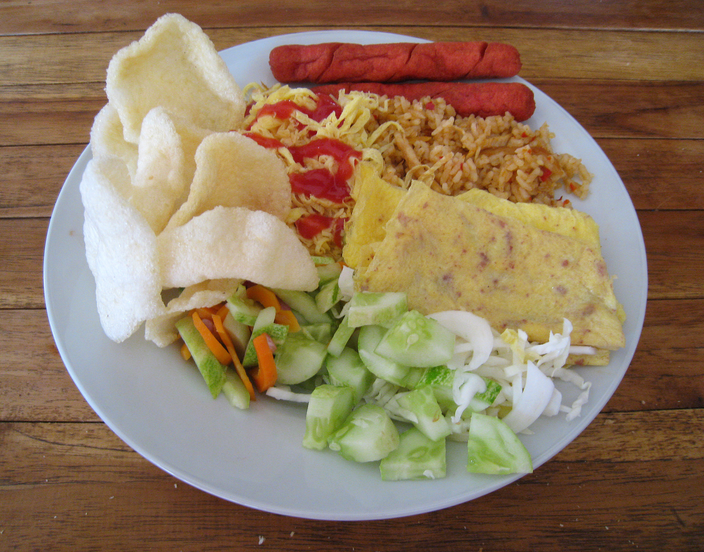 Nasi Goreng (Indonesian fried rice) with beef sausages, omelette, kerupuk (crackers), pickles and vegetables in Jakarta, Indonesia.